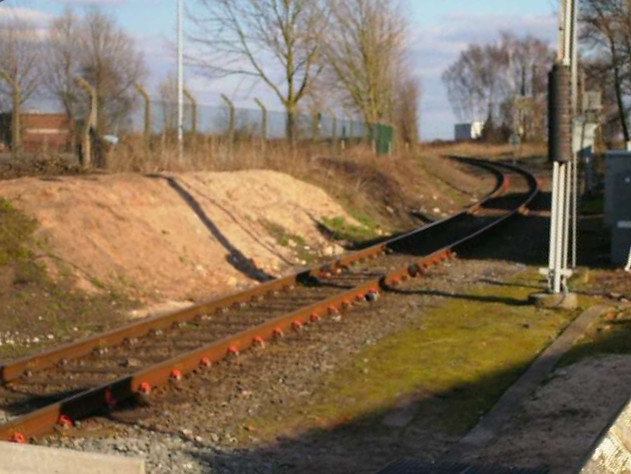 The single line spur from the West Coast Main Line to the old South Staffordshire Line to Wichnor Junction. Coal trains for Rugeley Power Station occasionally use this spur from the East Midlands, as well as some usage by Virgin Trains to move their units to the Bombardier depot (Central Rivers), where they are maintained.